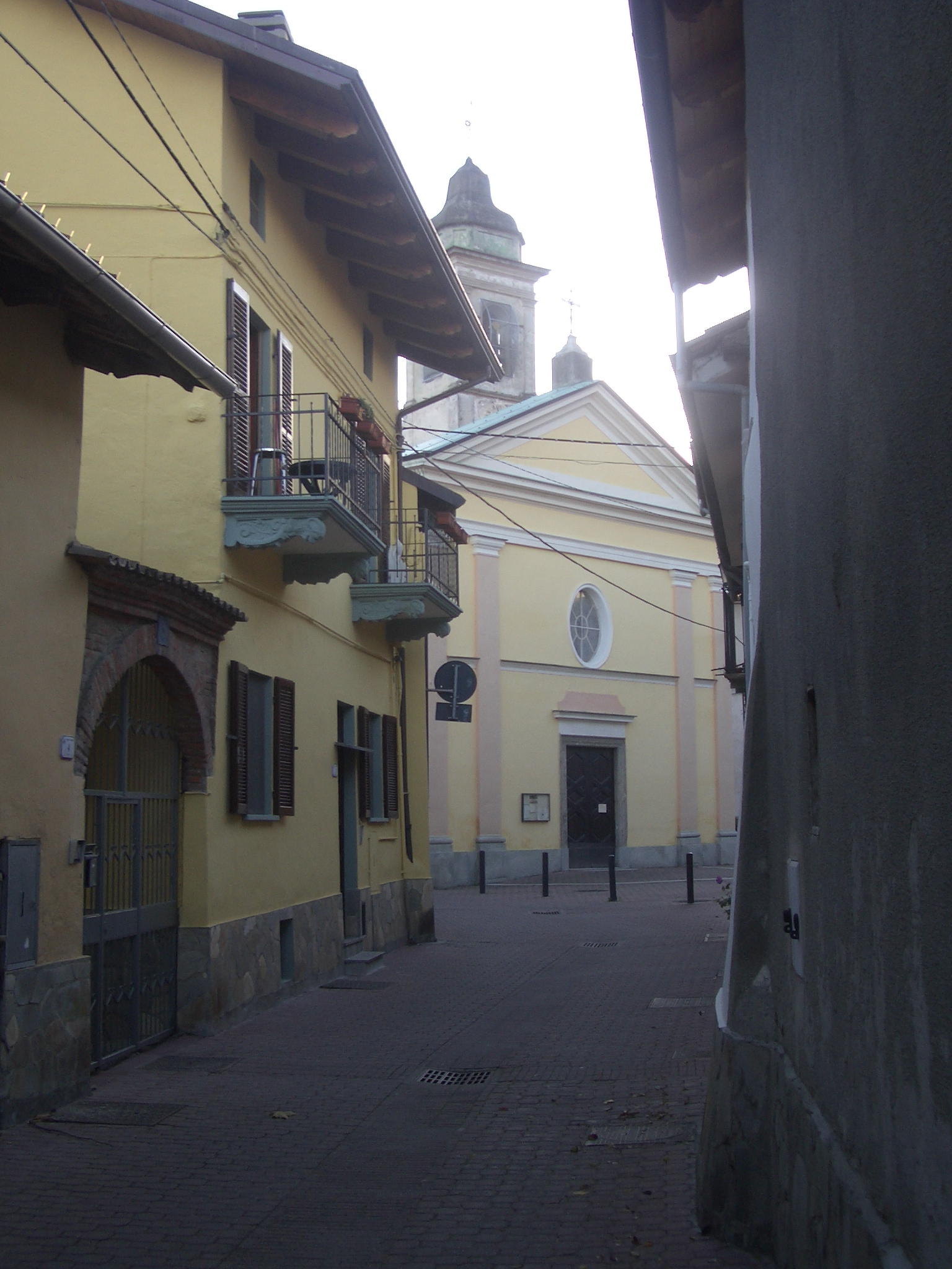 “View of the village and the parish church”, Salerano Canavese, Turin, Italy